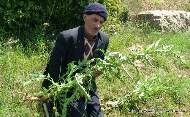 نبات برّي سوري يؤكل